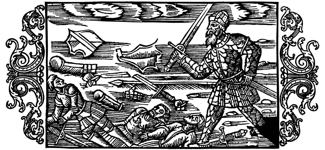 Starkaðr stands a the victor on a battlefield full of dead bodies, cut limbs, broken weapons and pieces of suits of armour. From Olaus Magnus' "Historia de gentibus septentrionalibus".